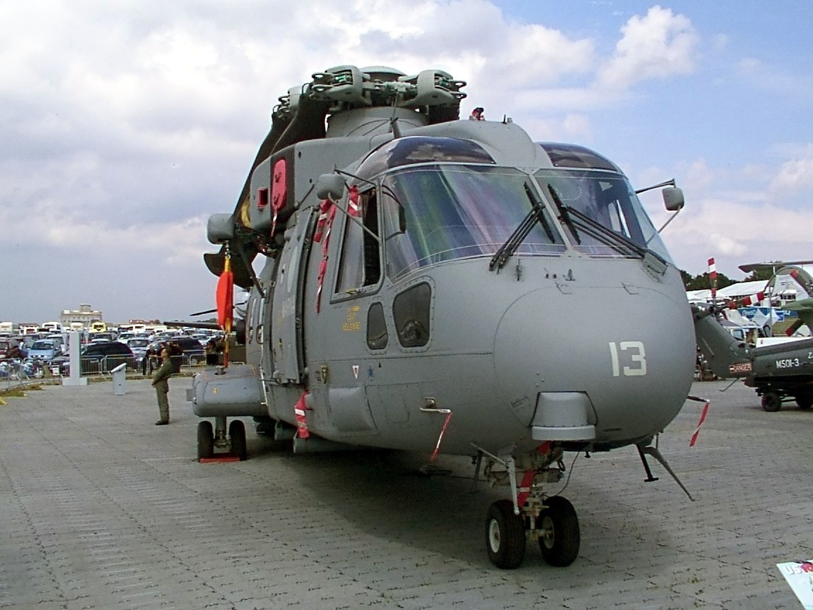 AgustaWestland EH101-110ASW serial number MM81492 of the Italian Navy at Farnborough International 2004